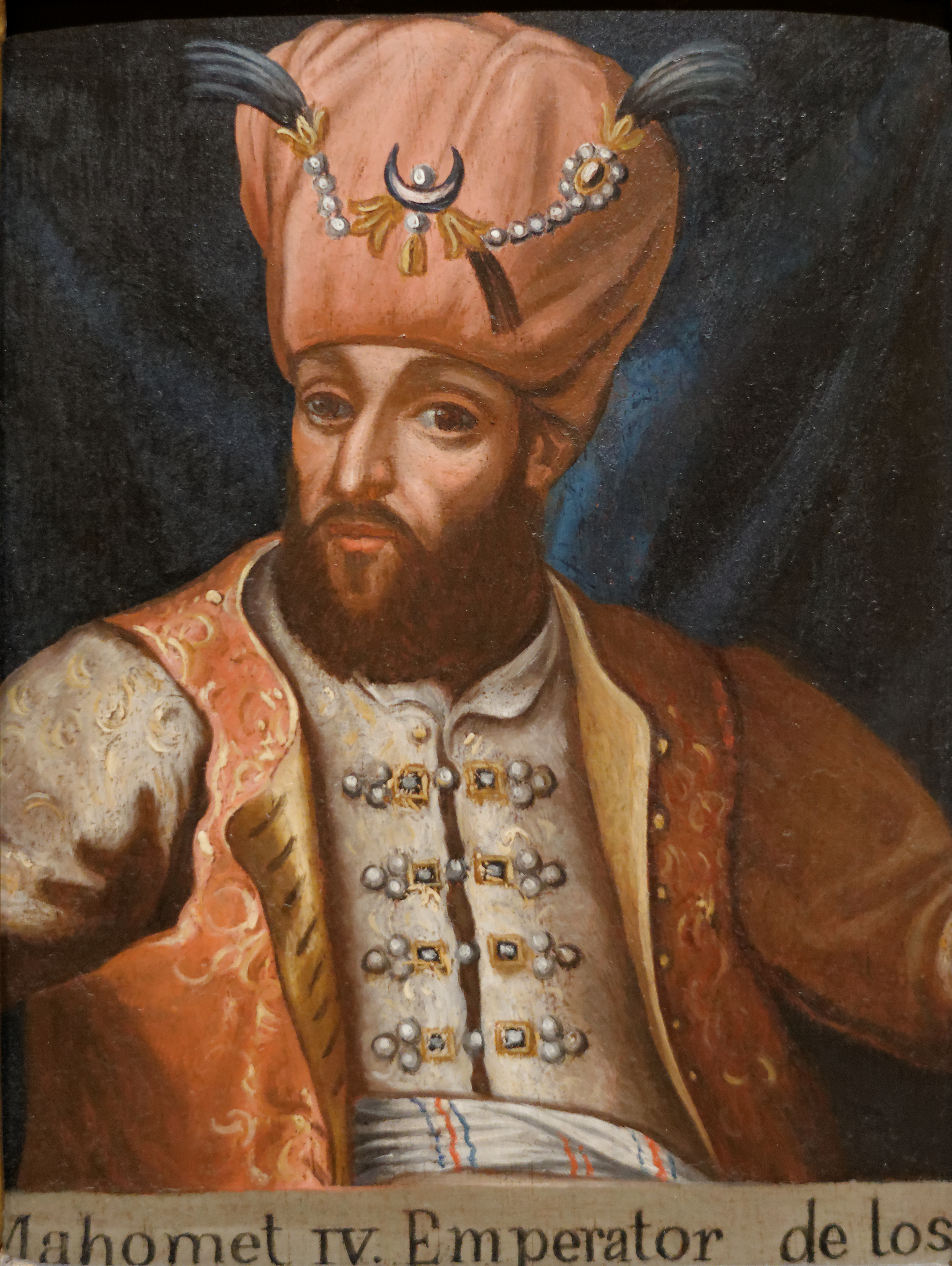 Mehmed IV. Wien Museum, Austria